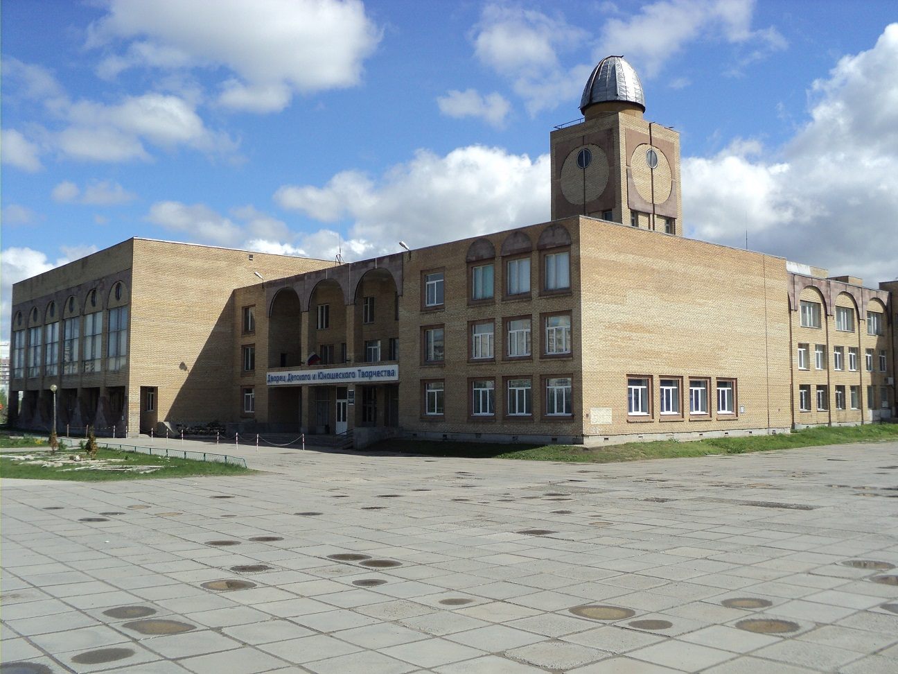 "Palace Of Pioneers. City of Togliatti. (Soviet architecture). After the 1991 takeover and ban the Communist Party of the Soviet Union ", "Pioneers organization", dissolved! Its assets were confiscated and passed under the control of local authorities. Partially operate under the new name "Palace of children and youth creativity". Installed rooftop telescope